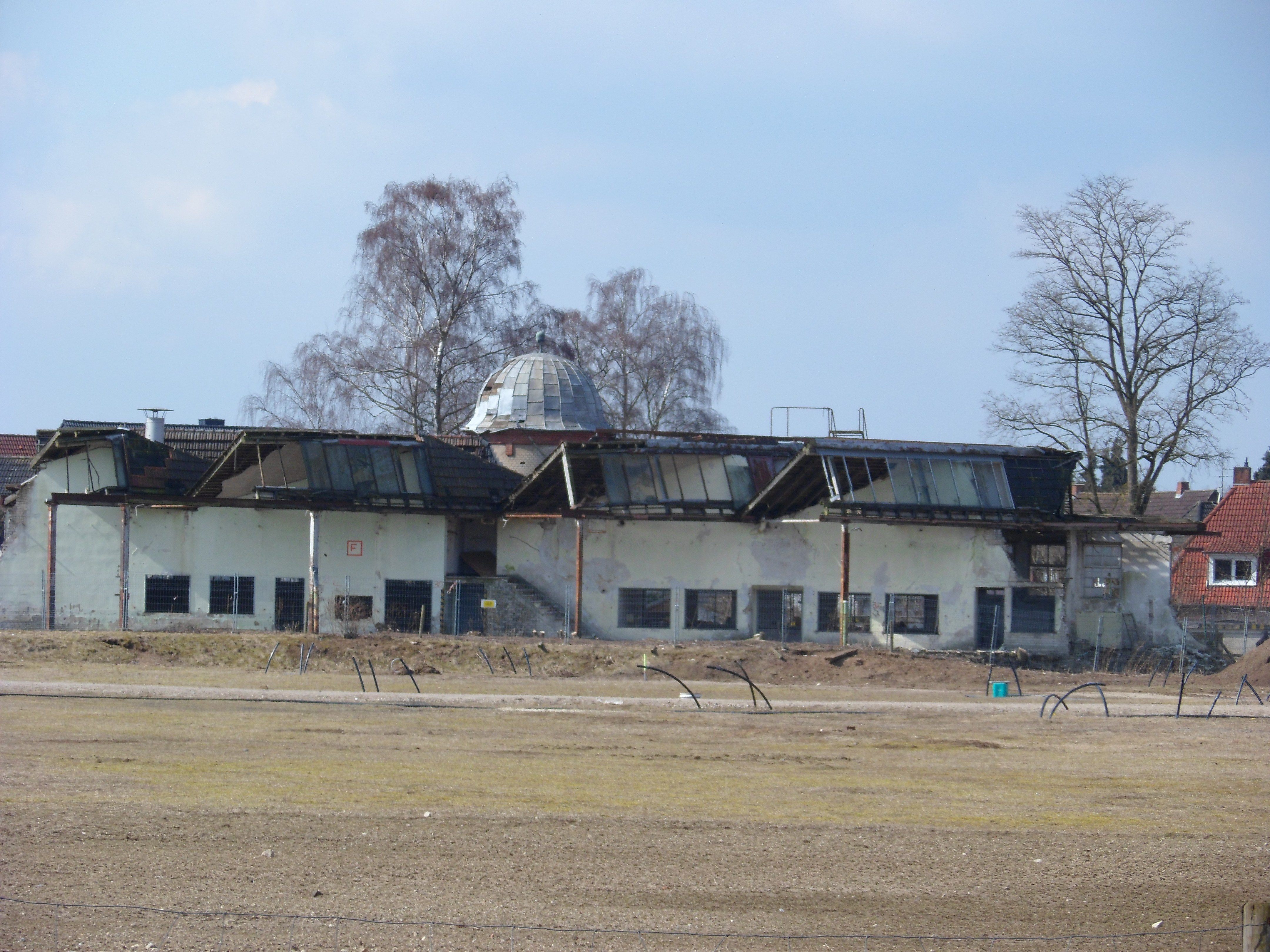 Nordhorn Manztürmchen